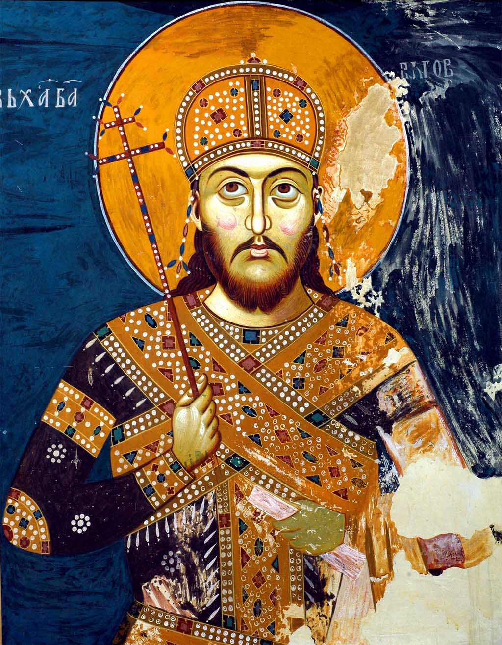 Detail of fresco depicting Serbian Emperor Stefan Dušan. Painted in the mid-14th century. Restorated (coloured). Lesnovo Monastery, Republic of Macedonia.